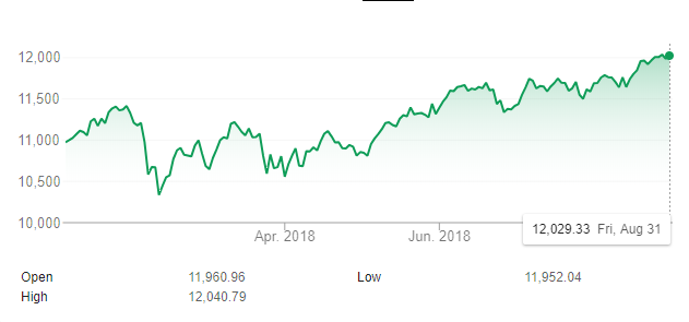 S&P 1000 Line Chart YTD as of Fri, Aug 31